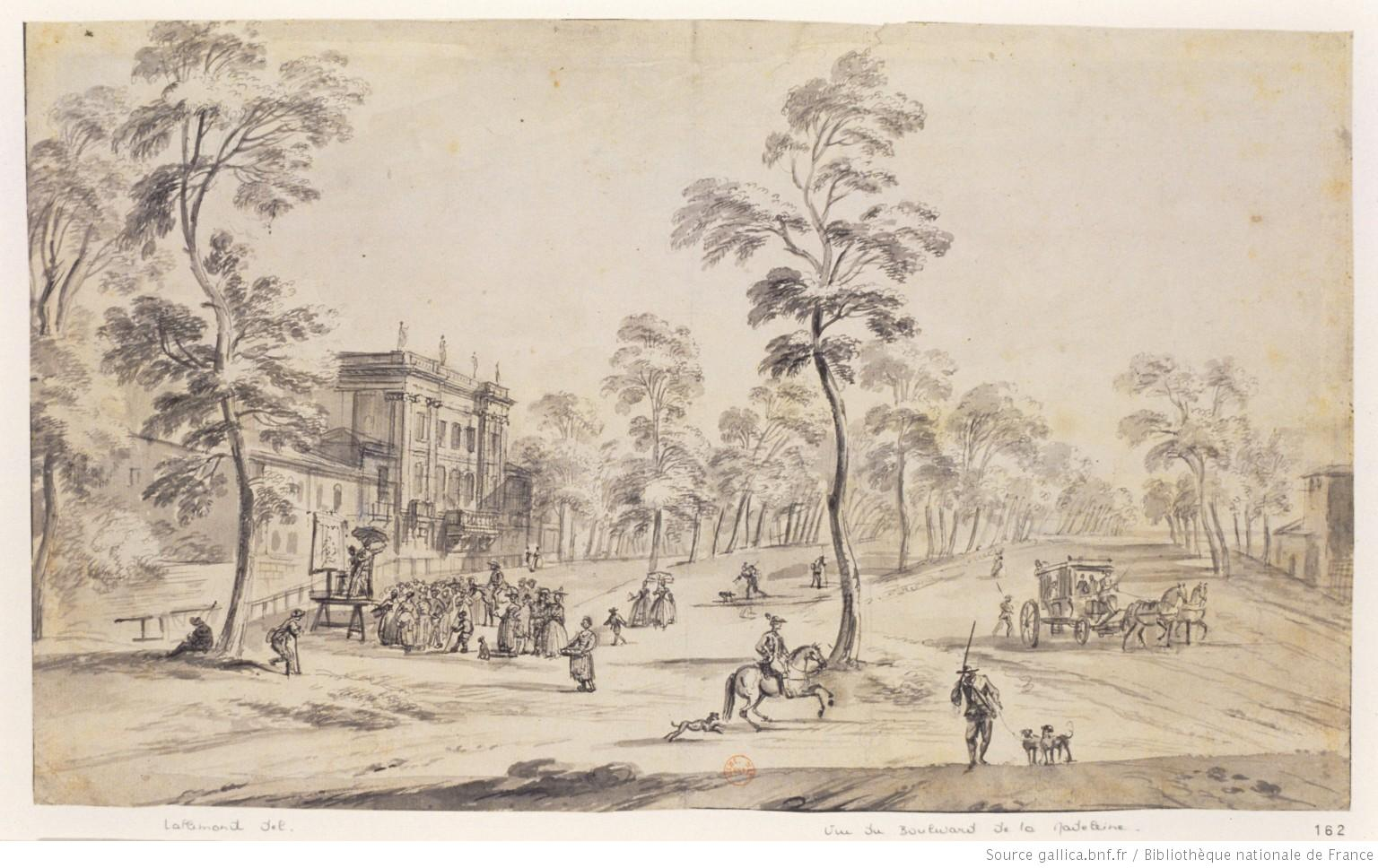 The Boulevard des Capucines, not long after it was first opened, with the Hôtel de Montmorency on the left, Paris 9e arr.